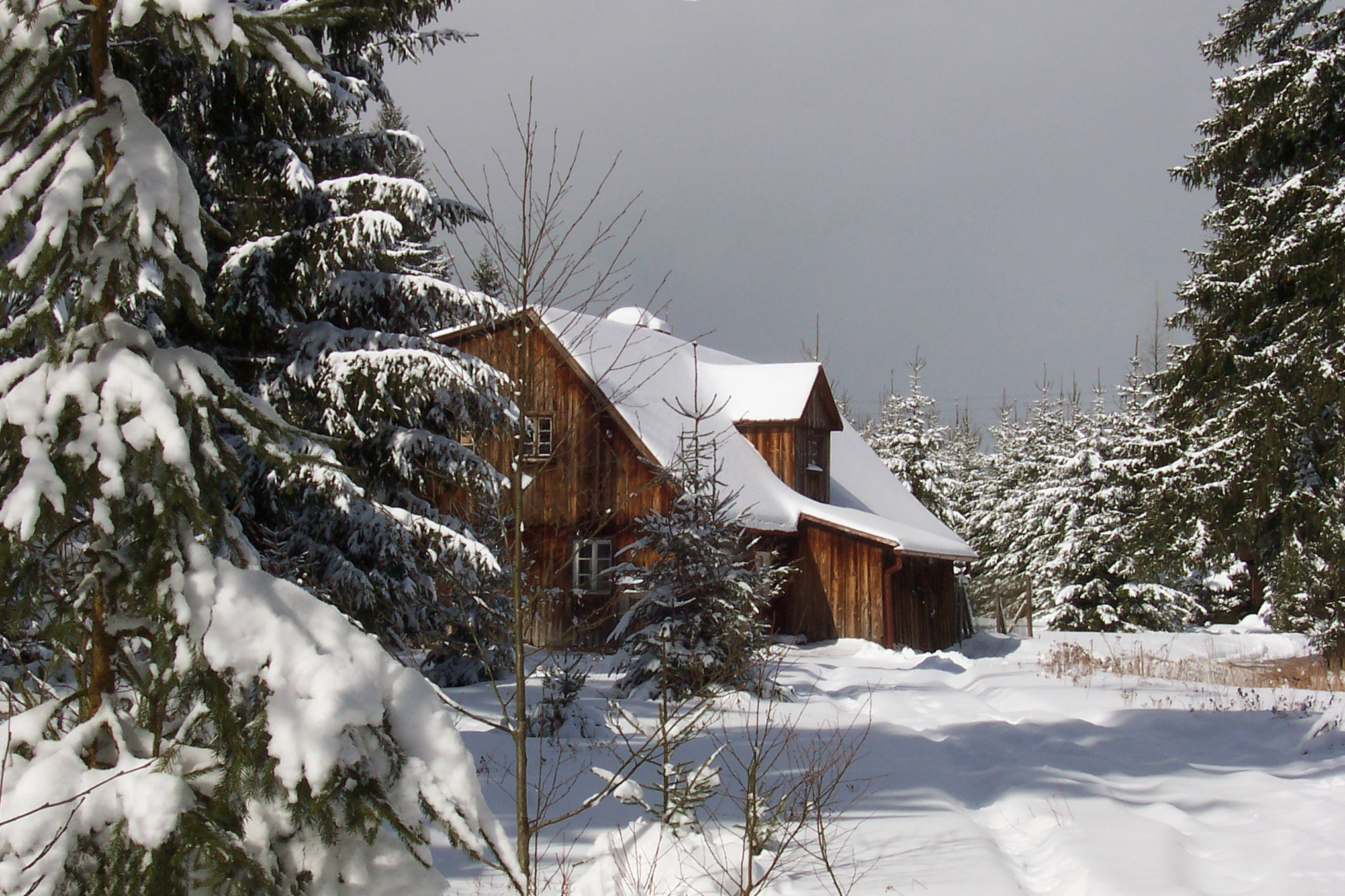 Easter 2008 in Karłów; Poland